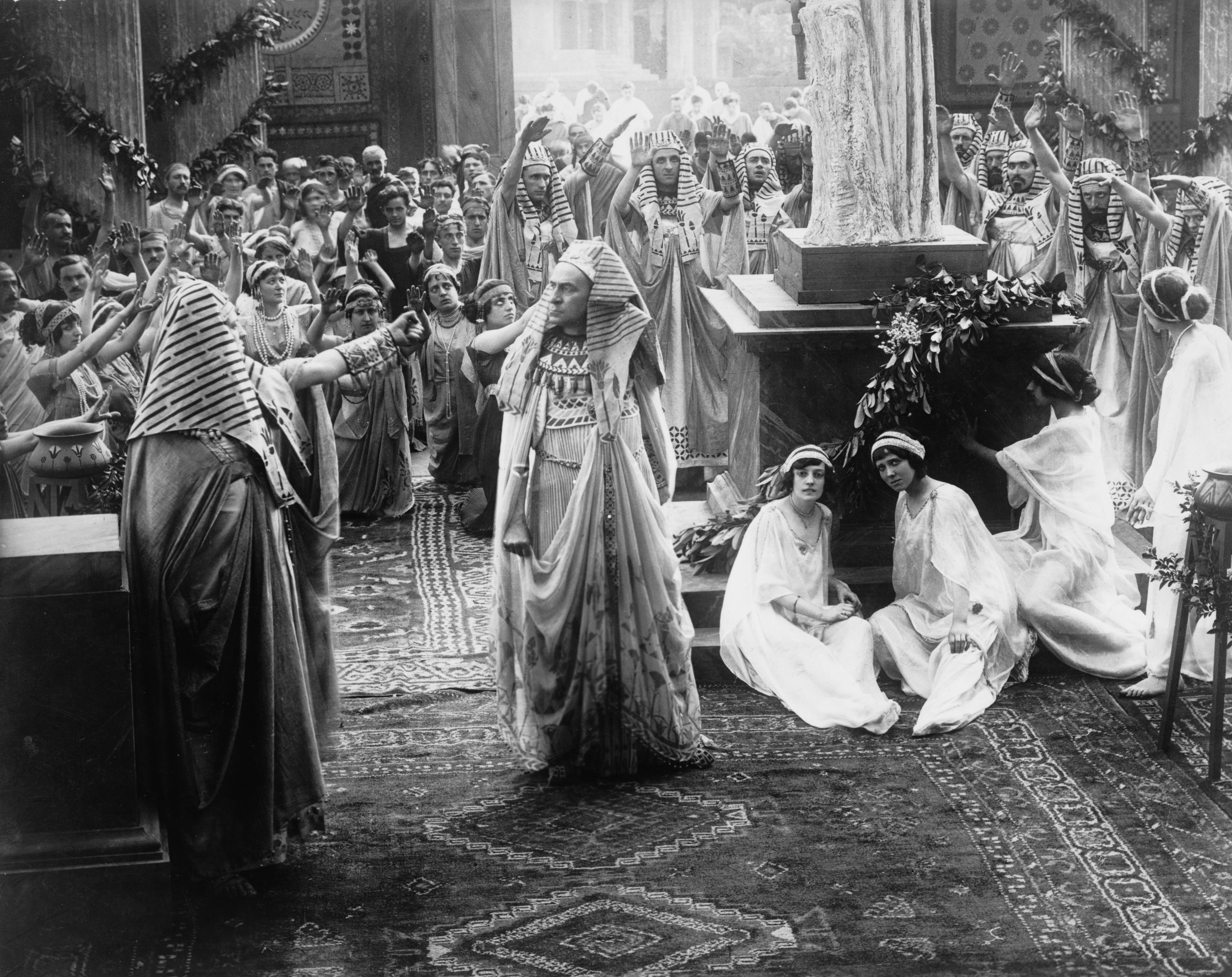 Scene from the silent film Ultimi giorni di Pompeii, Gli (The Last Days of Pompeii) directed by Mario Caserini and Eleuterio Rodolfi, showing priests and citizens worshipping a statue.